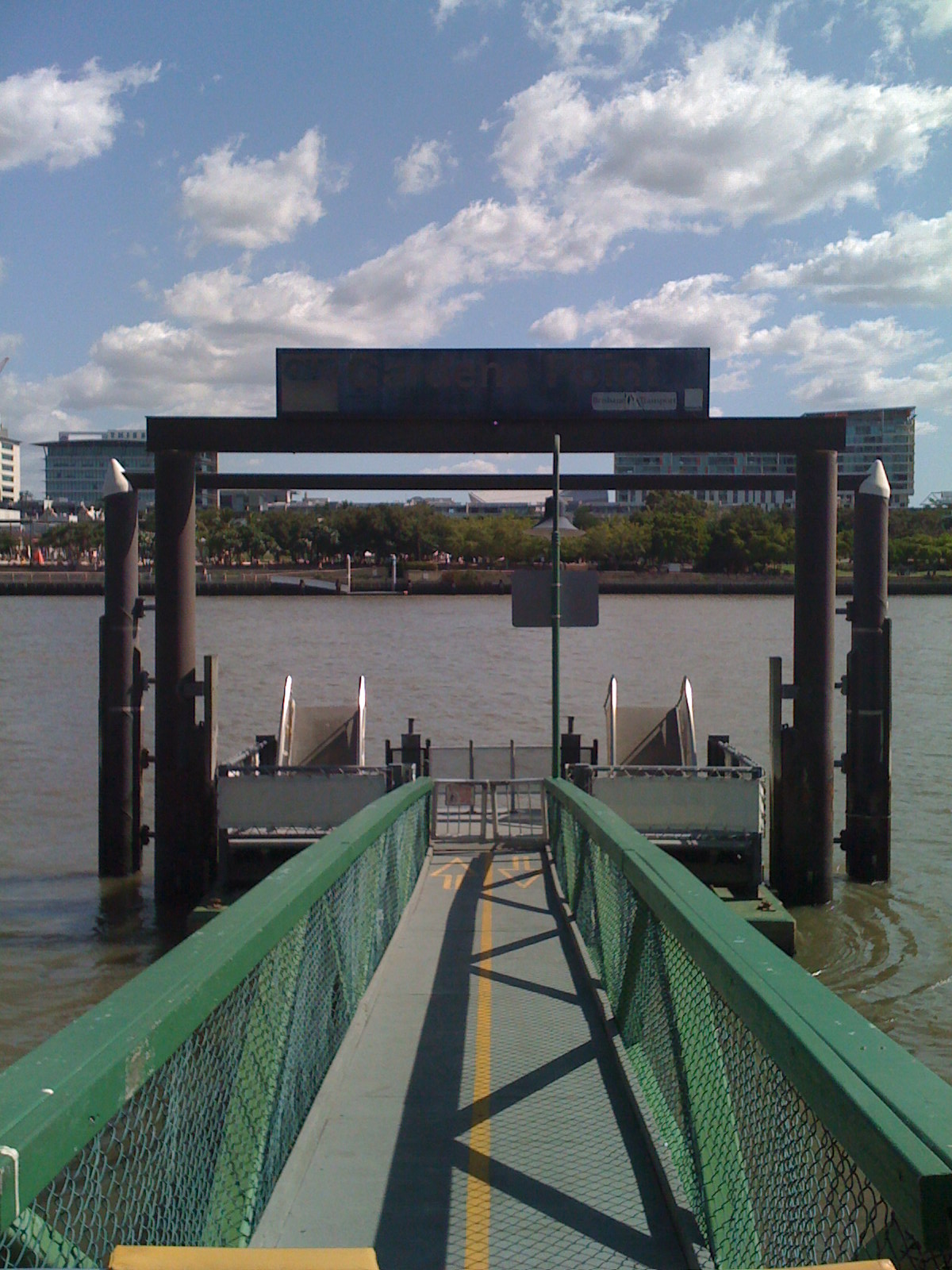 QUT Gardens Point ferry wharf by Manoj Prajwal Bhattaram